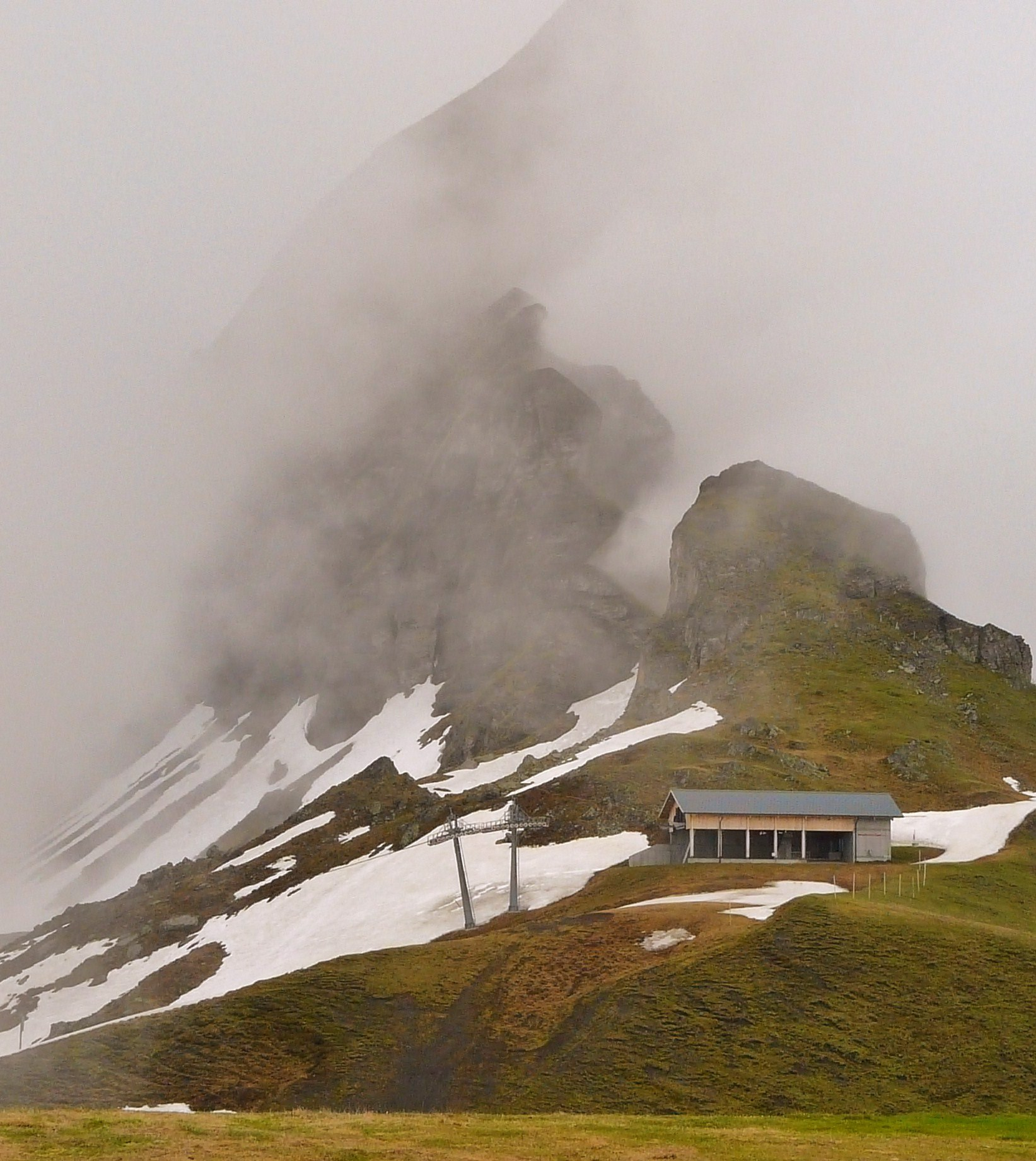 A foggy view on mount Männlichen, Bernese Oberland, Switzerland, in 2008 June: Station of chairlift Lägern; mount Tschuggen in the back.